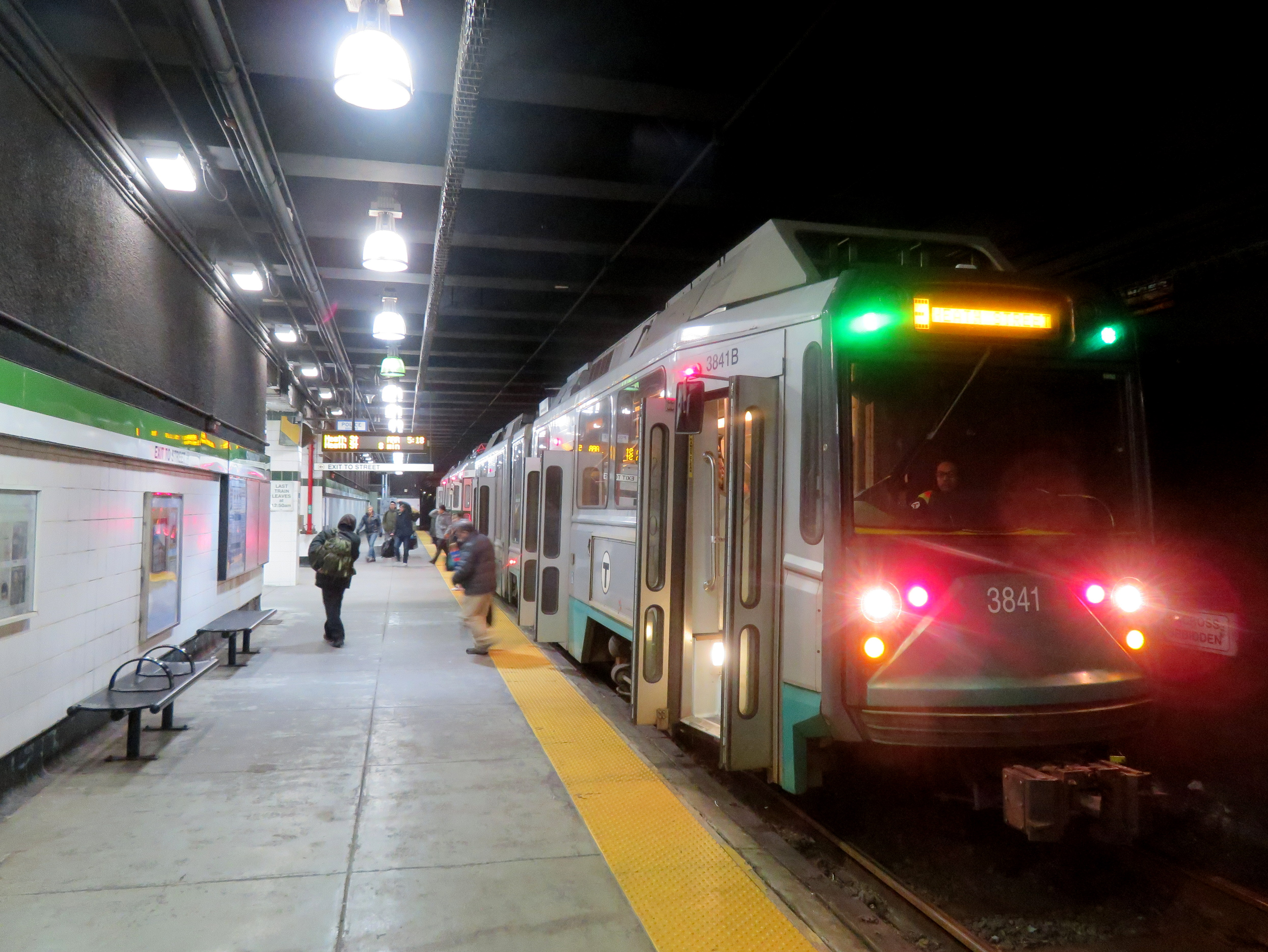 An outbound train at Symphony station in December 2019